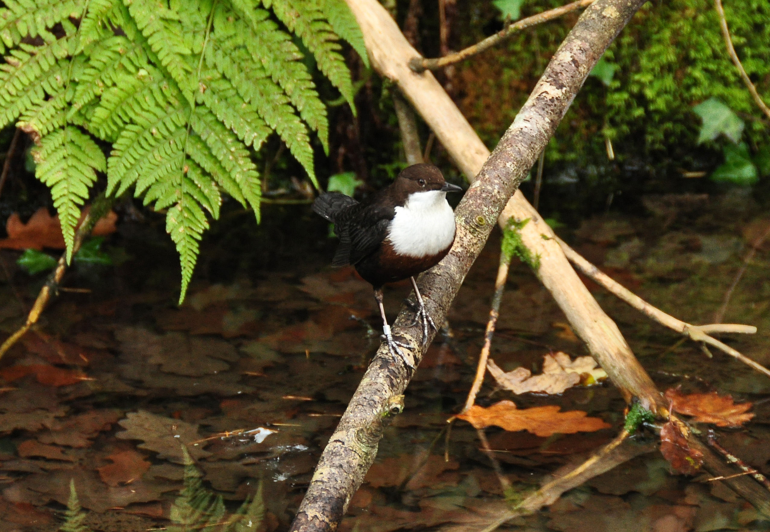 A Dipper (Cinclus cinclus) in Plymbridge Woods, near Plymouth, UK. The dipper is resting on a fallen branch in the disused Cann Quarry canal.